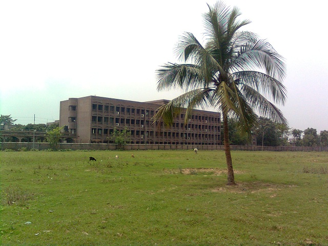 Dinajpur